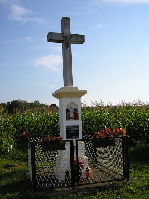 Crucifix in Novačka